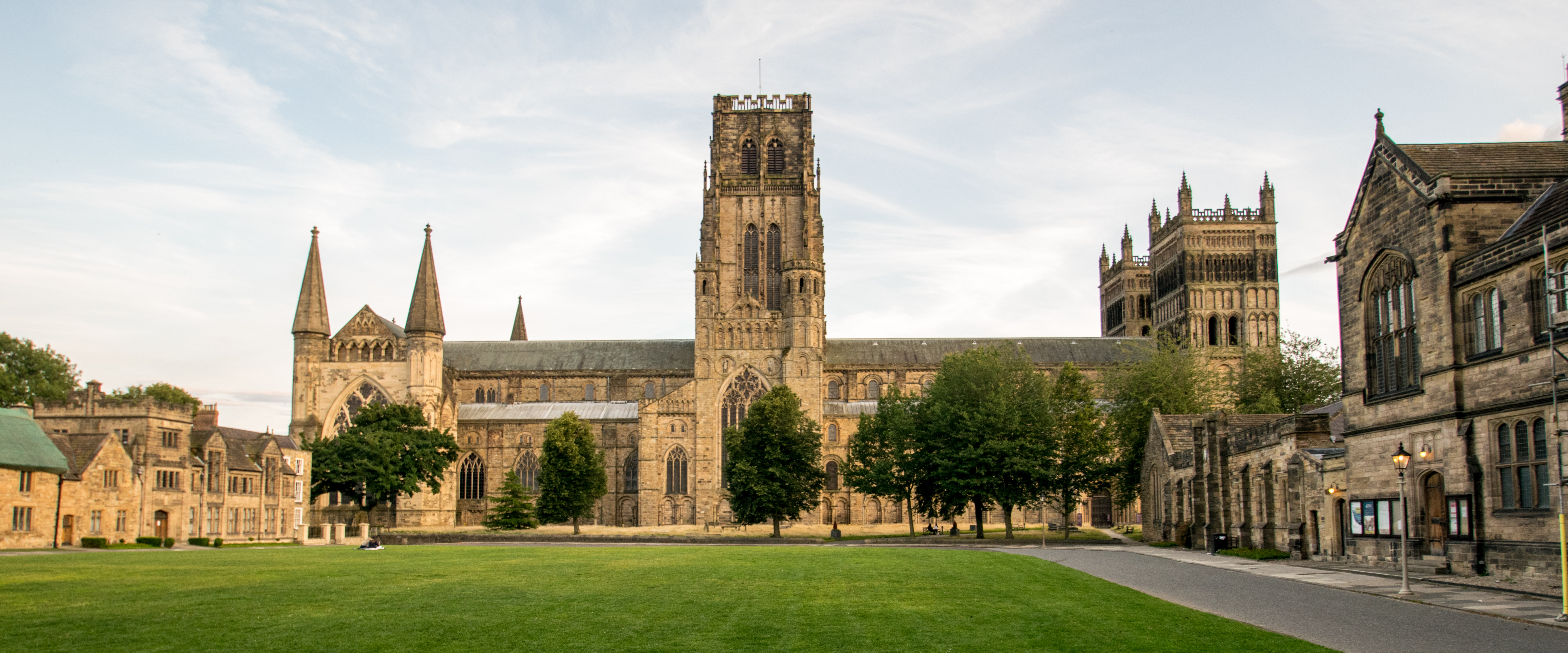 Durham Cathedral from Palace Green, with Palace Green Library to the right and Bishop Cosin's Almshouses and the Pemberton Rooms on the left.